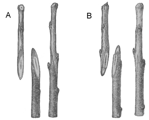 cutout of image:Zraz.png, showing approach grafting